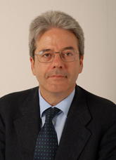 Paolo Gentiloni in 2006.